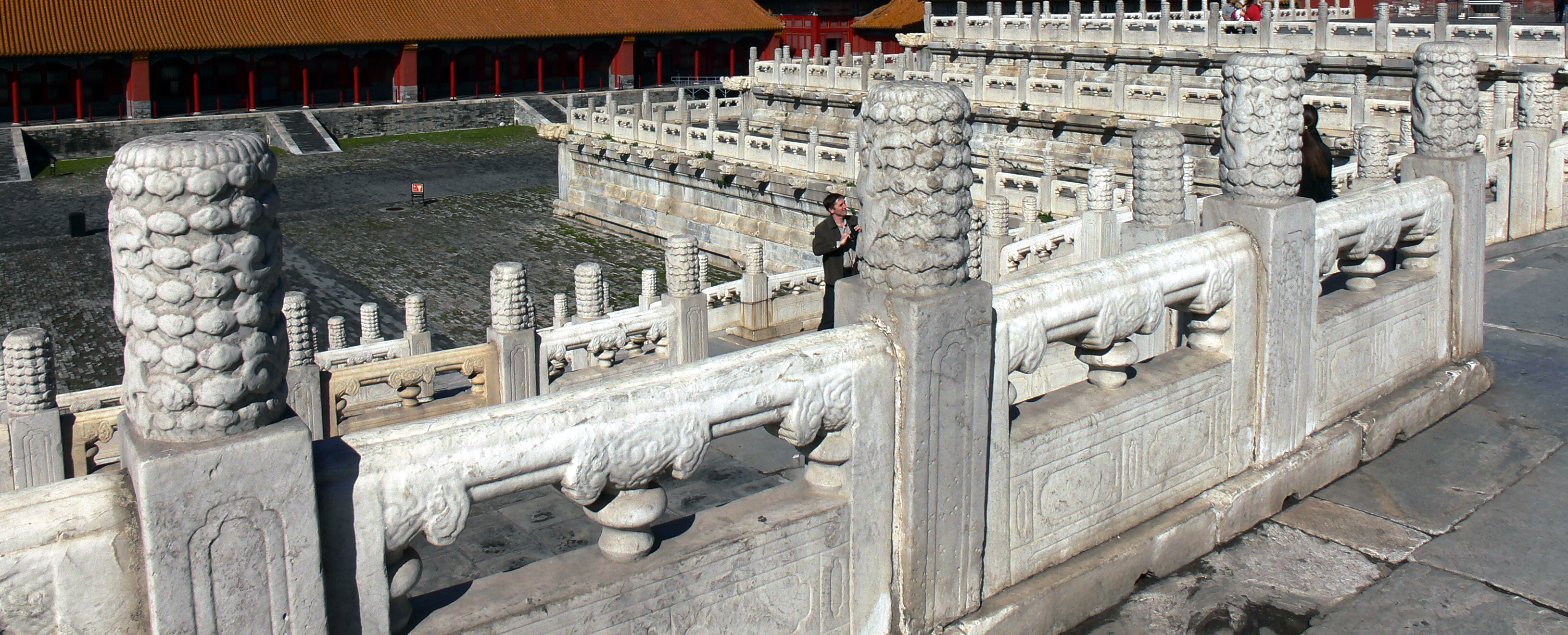 (view NW) at the Hall of Central Harmony, courtyard